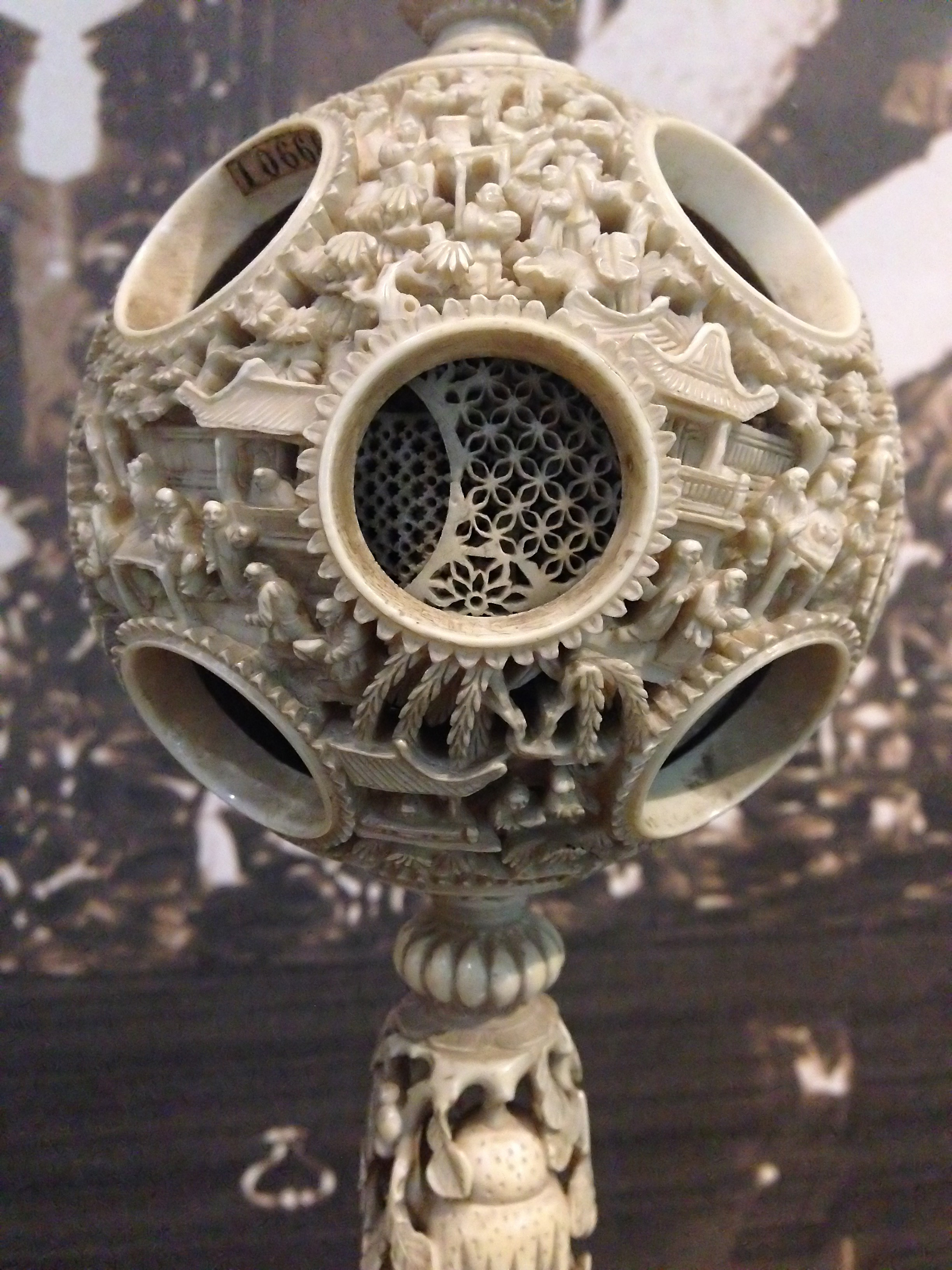 Chinese puzzle ball with 16 inner balls, made of one single piece of ivory. Rautenstrauch-Joest-Museum, Cologne, Germany.